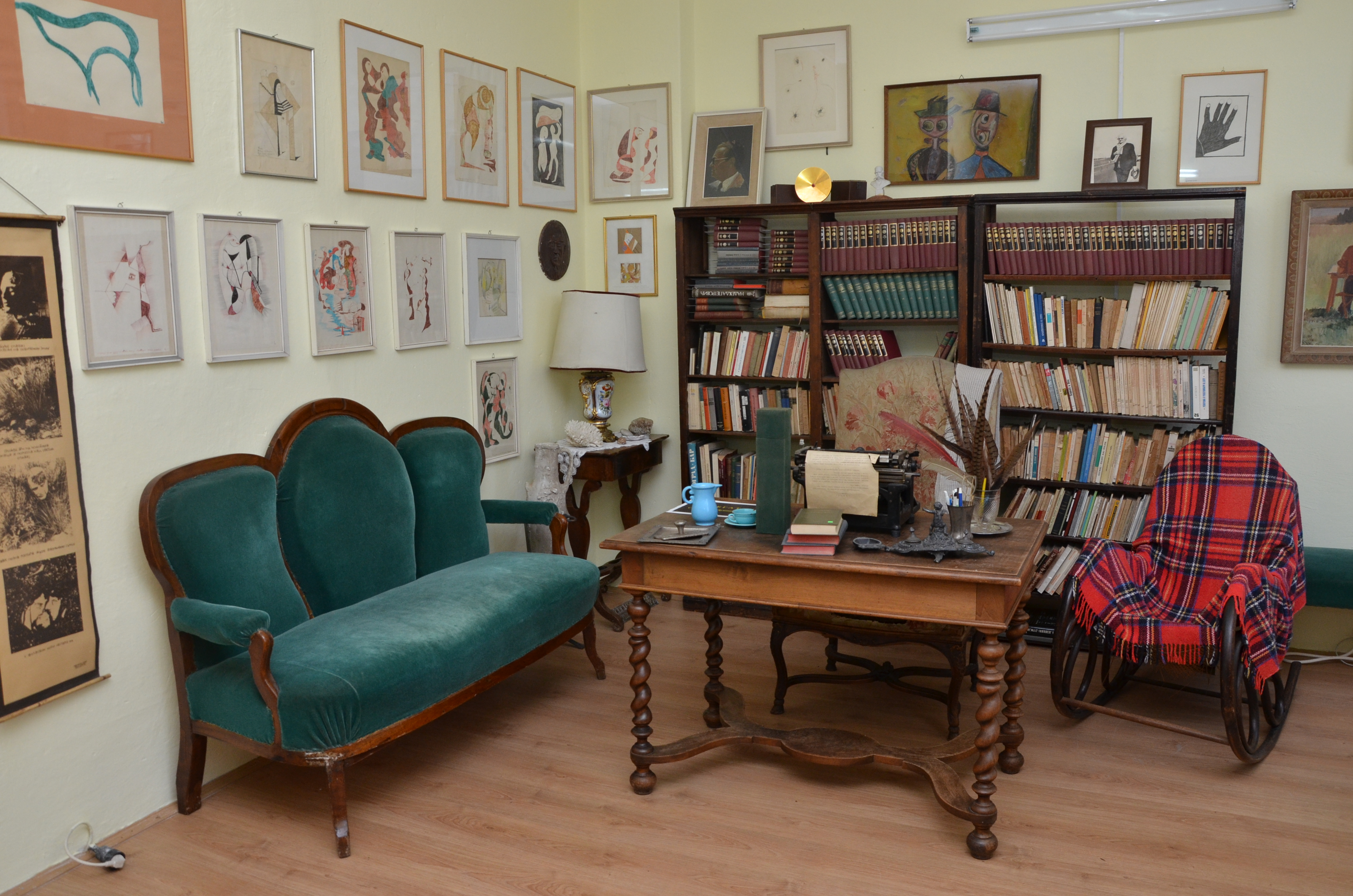 Public library Dusan Matic - memorial room